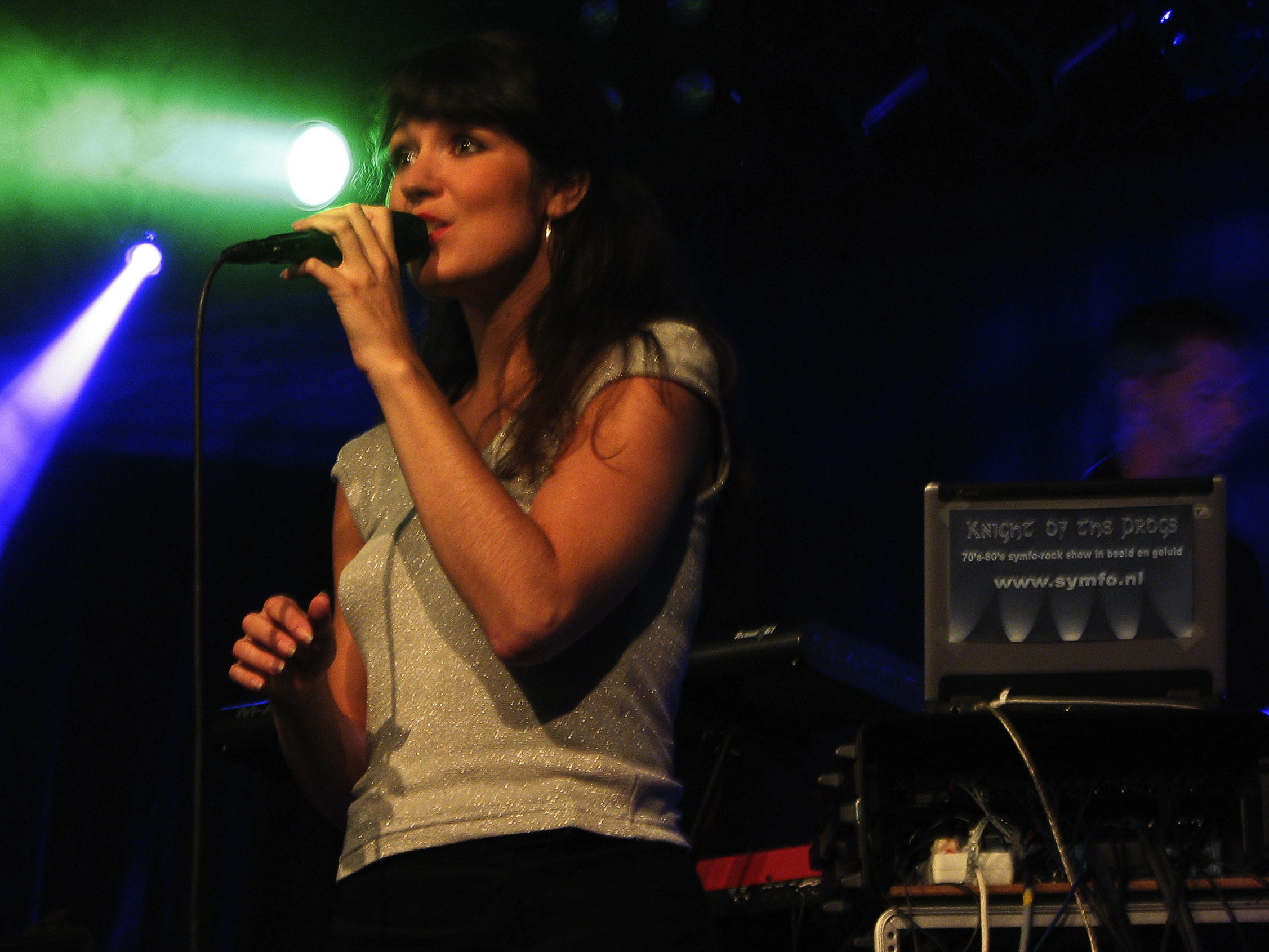 "The Dutch Kate Bush" tribute act at Knight of the Progs